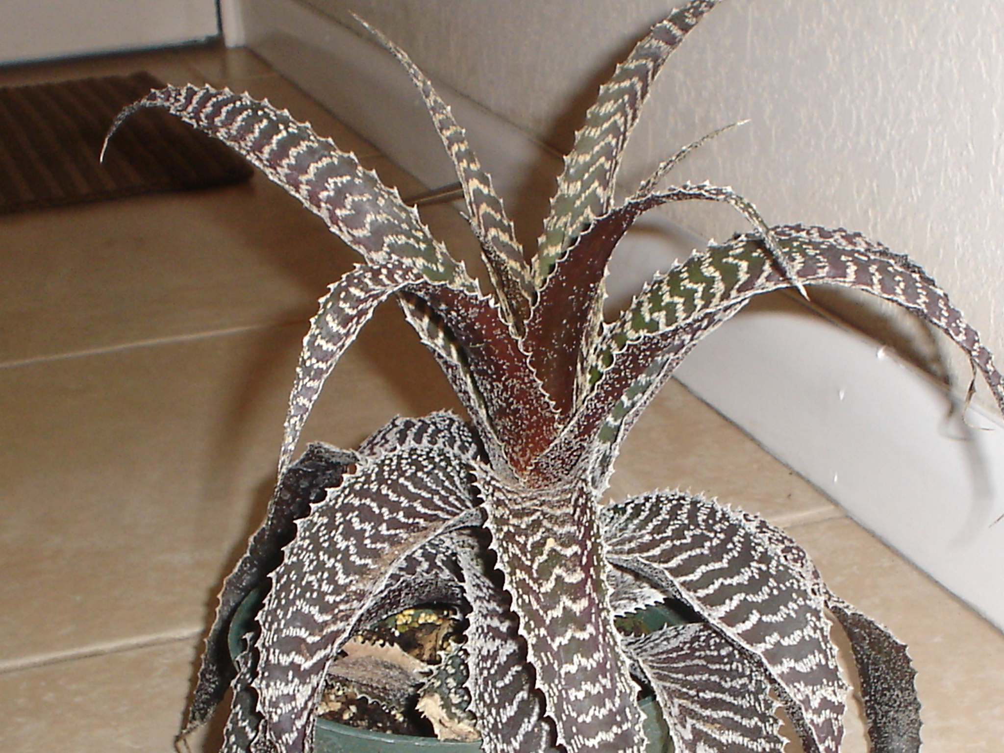 This is a picture of a Bromeliad (sp. Orthophytum gurkenii) in my collection.